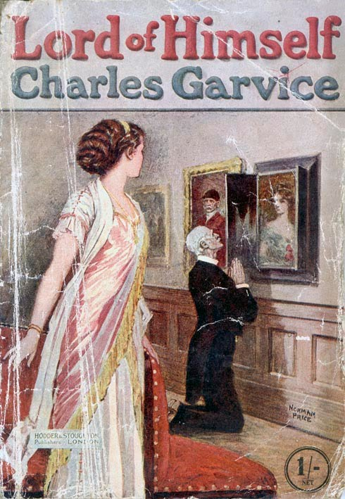 Cover image of Lord of Himself (1911) by Charles Garvice (1850-1920)